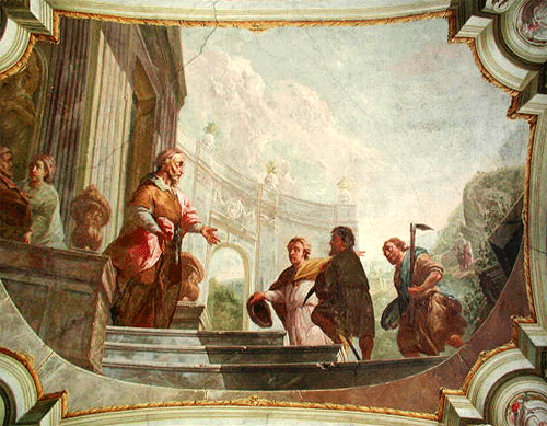 stropní freska